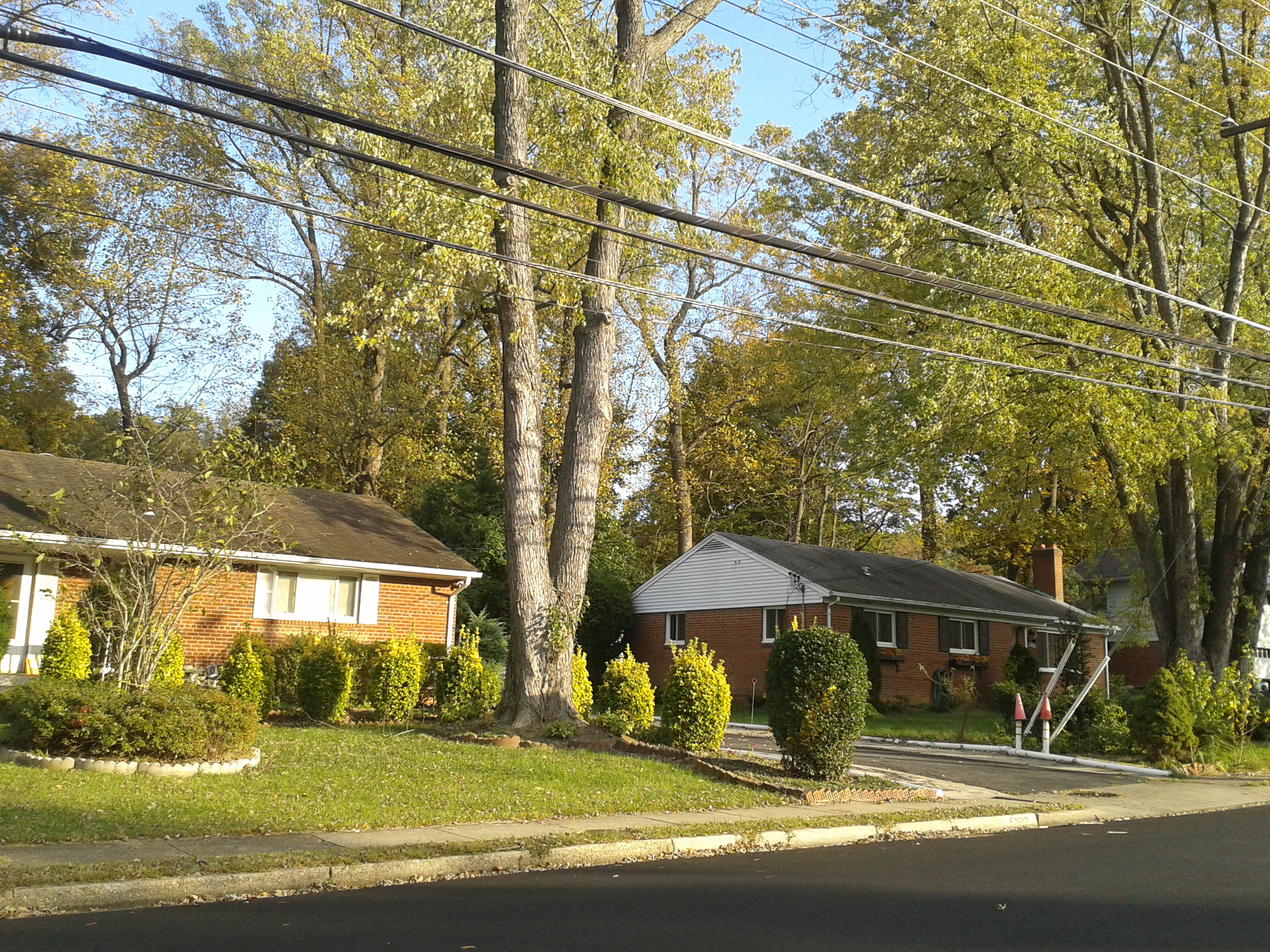 North Springfield, Fairfax County, Virginia Taken by me in October, 2016